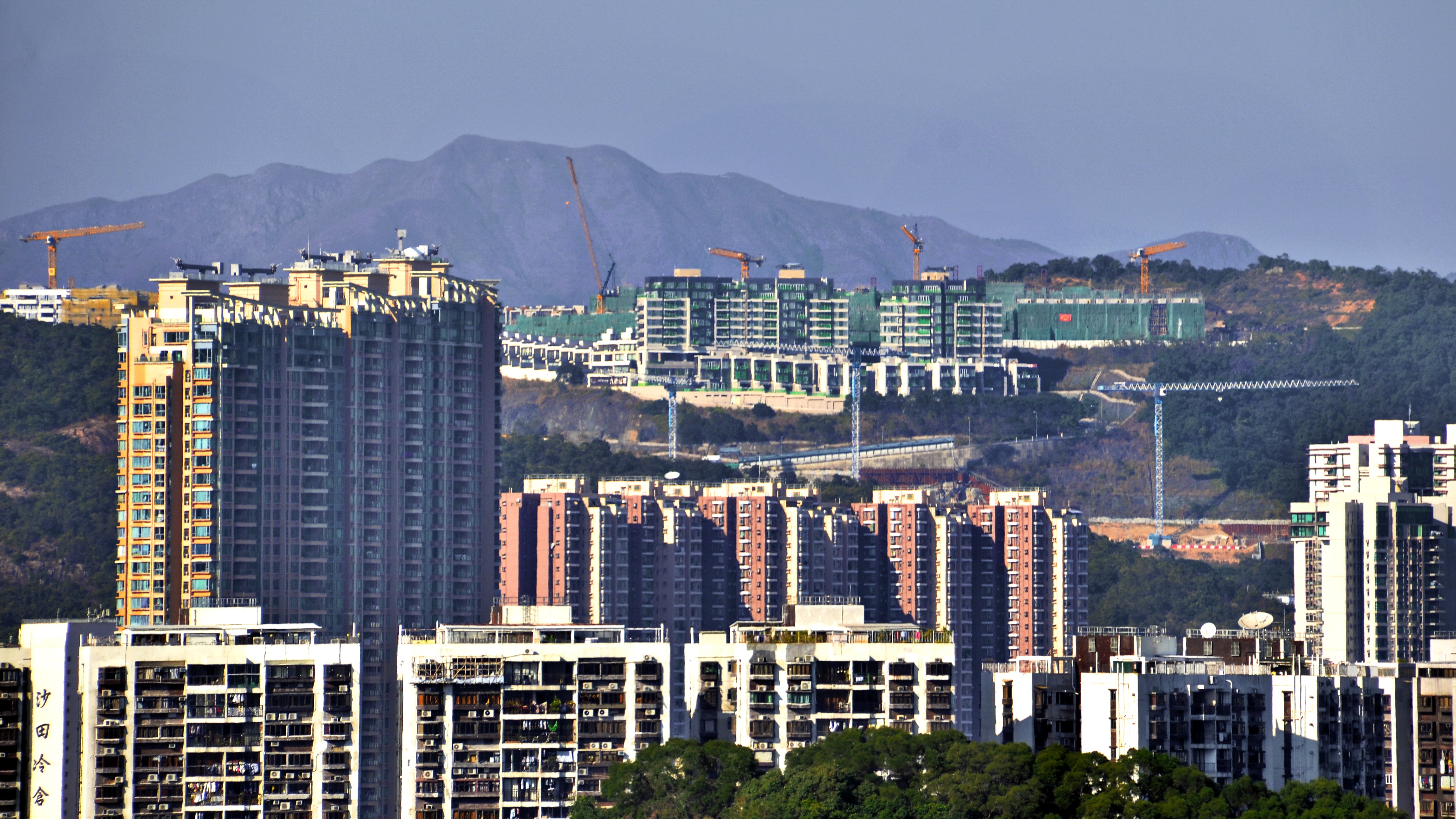 Kau To Shan, view from Shui Chuen O Estate, Shatin, New Territories, Hong Kong.